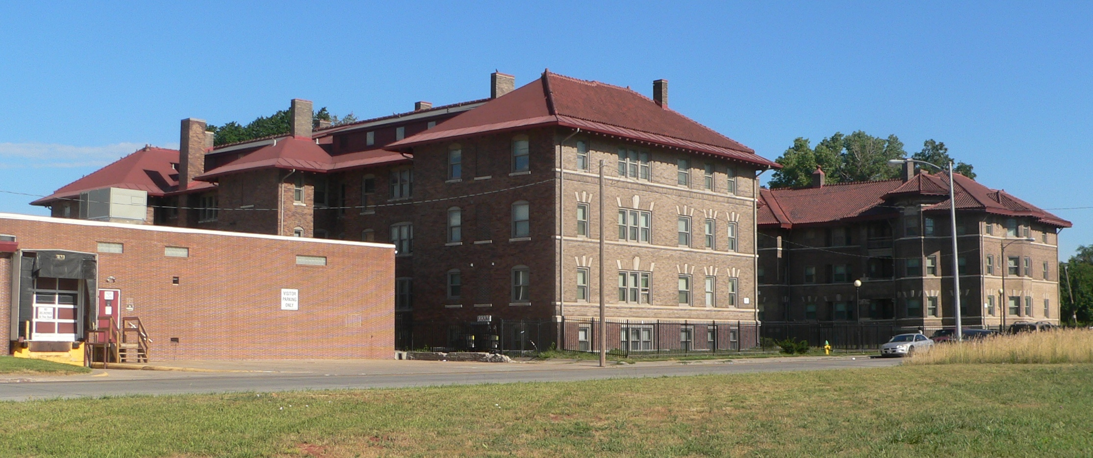 Ernie Chambers Court, located at 2024 N. 16th Street in Omaha, Nebraska; seen from the southeast.